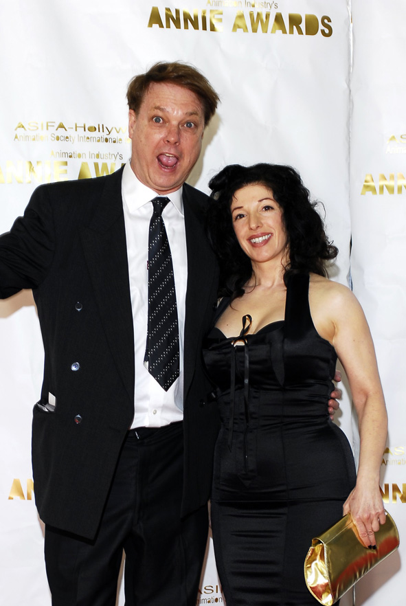 Bill Plimpton and guest at the 2006 Annie Awards red carpet at the Alex Theatre in Glendale, California.